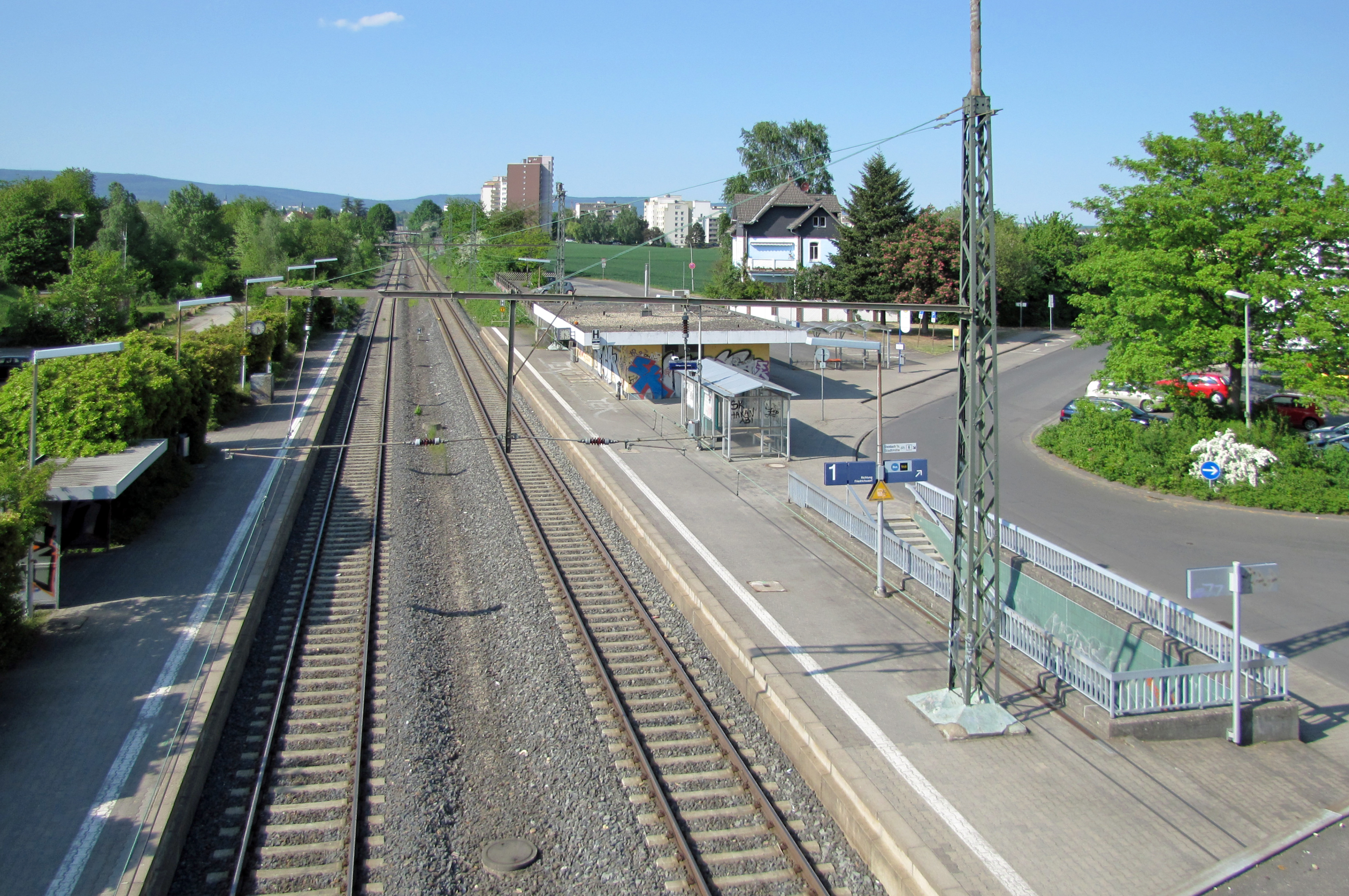 Railway station (S-Bahn) "Weisskirchen-Steinbach" (northern part), at border Oberursel-Weisskirchen (the border is crossing the station) and Steinbach, 2011, Hesse, Germany.